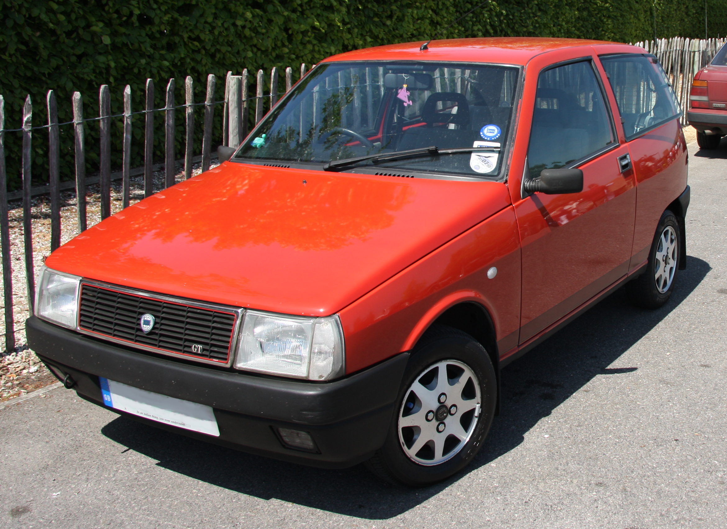 Lancia Y10 1.3 GT i.e. at Lancia Motor Club Goodwood Track Day 2010